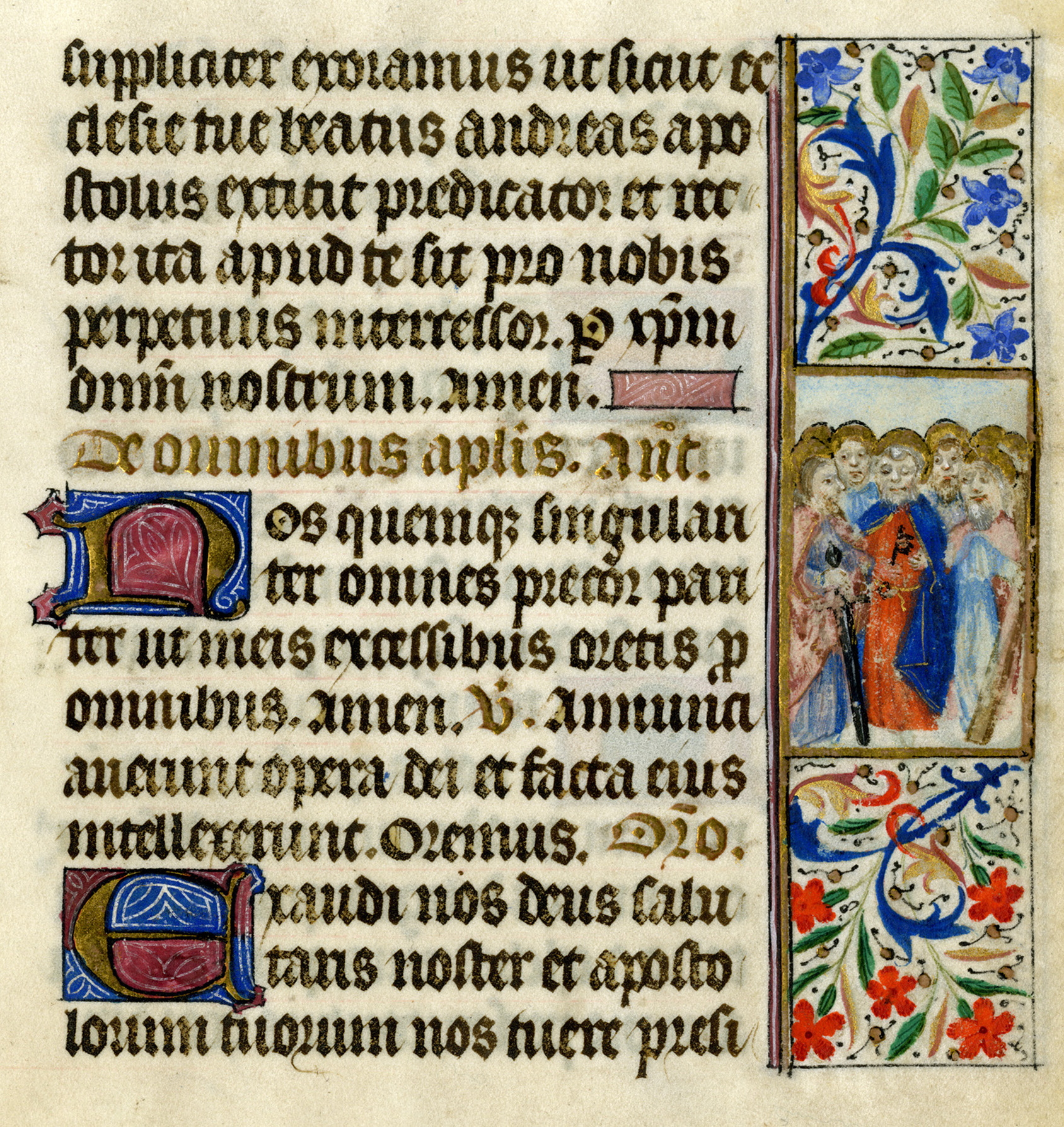 A page from the 15th century French illuminated manuscript MSS 122 in the Boise State University Library Special Collections. Dimensions: 9 × 8.5 cm. The manuscript is from a book of hours, and the page shown partially covers the liturgy of the octave of Saint Andrew. English translation: We humbly entreat [Thy majesty], O Lord, that, just as the blessed Apostle Andrew was once a preacher and guide to the faithful: so he may now be a perpetual advocate on behalf of us before Thee. Through Jesus Christ, our Lord. Amen. Each and every one of us prays together, that you may intervene on behalf of us all upon our departure from this life. Amen. And they declared the works of God: and understood his acts. Let us pray. Graciously hear us, O Lord, our Saviour, and protect us with the fortress of your apostles...